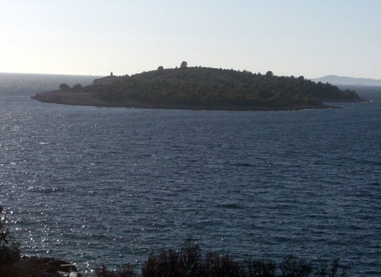 island of Tmara, near Primošten, Croatia